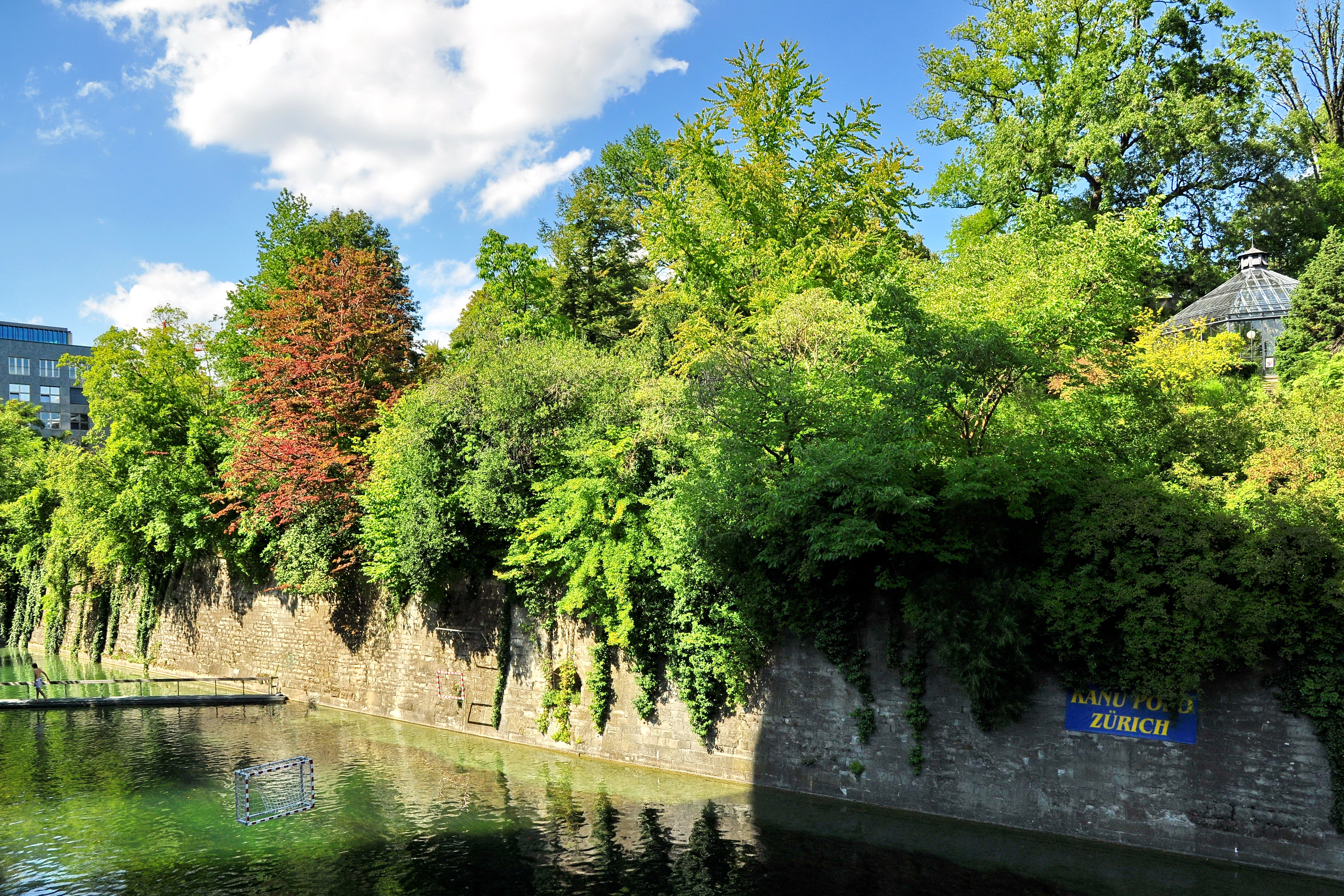 Zürich : Botanical Garden «zur Katz» in the areal of the Völkerkundeseum (Museum of Ethnology), University of Zürich. Former fortification «zur Katz» and the botanical garden's arboretum, as seen to the north over the so called Schanzengraben moat